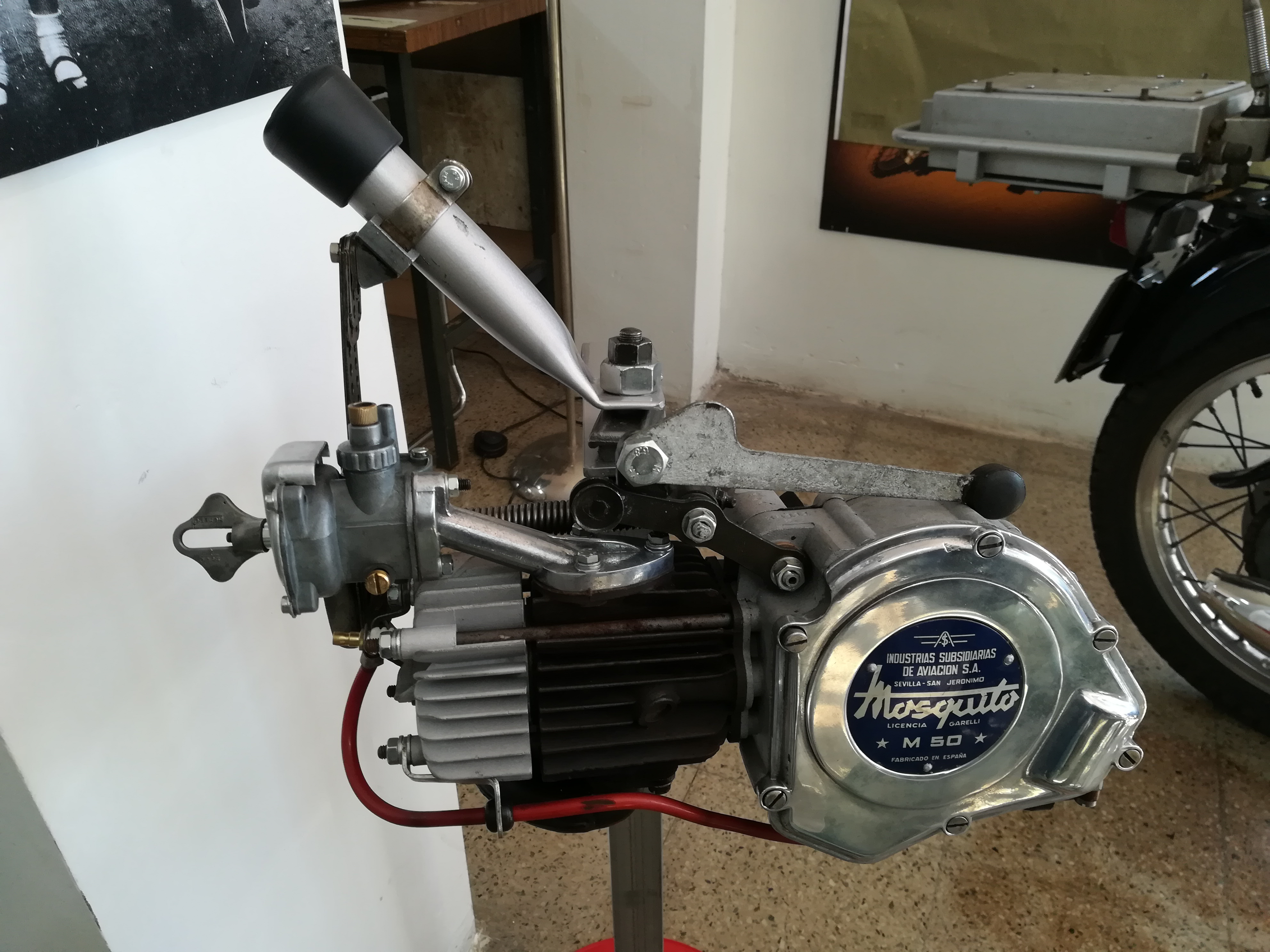 Mosquito M50 engine